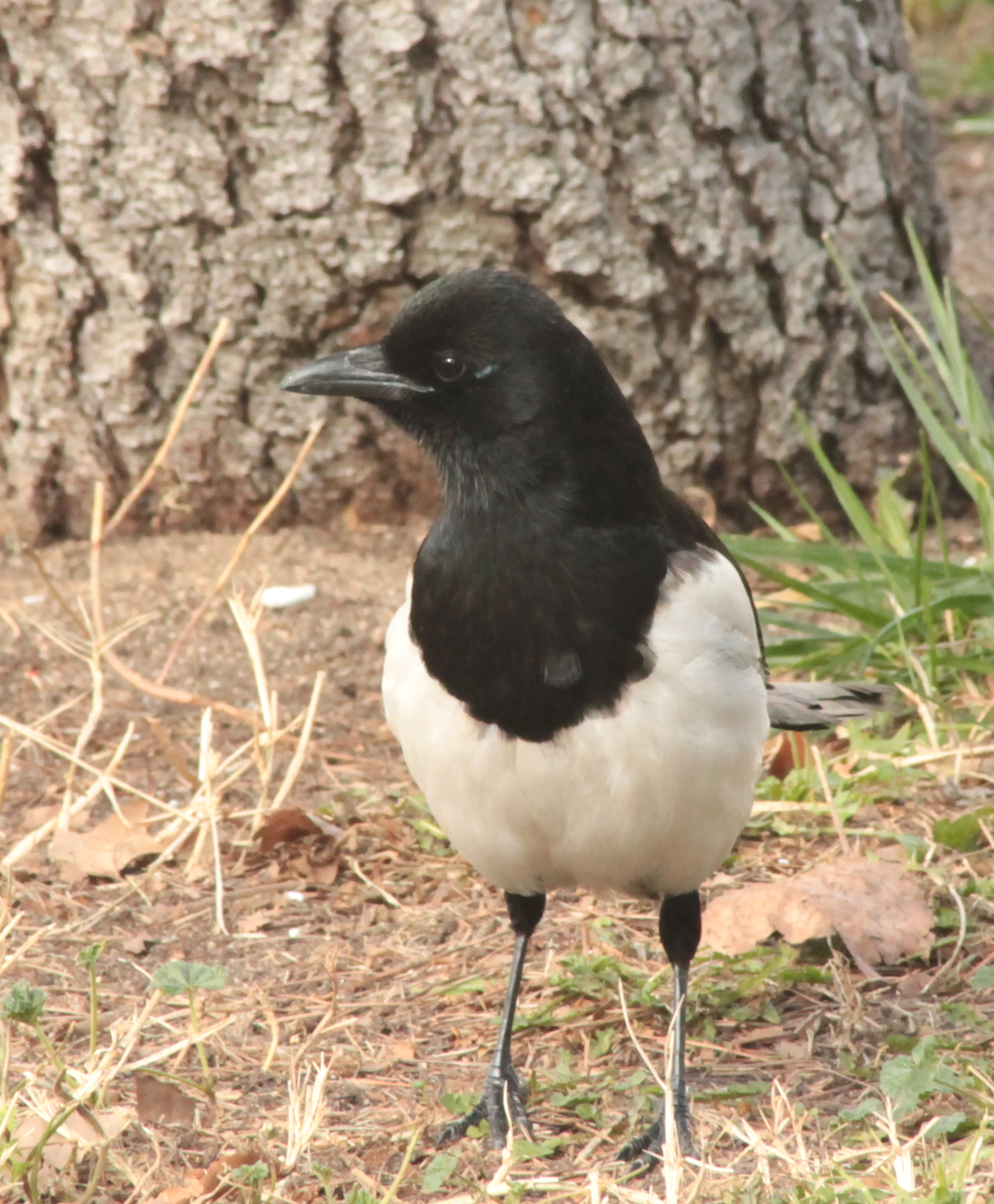 A European Magpie (Iberian) (Pica pica melanotos) in Madrid (Spain).